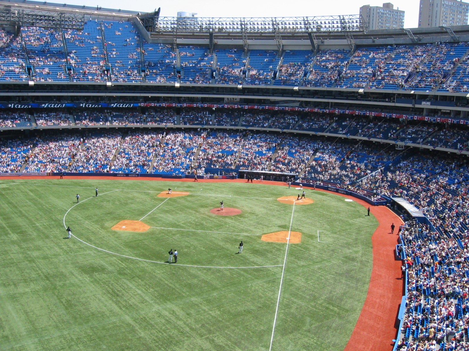 Toronto Skydome (Rogers Centre), NY Yankees vs. Blue Jays